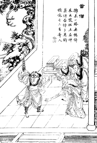 19th-century illustration of a scene from the short story "The Foreign Monks" collected in Strange Tales from a Chinese Studio (1740).